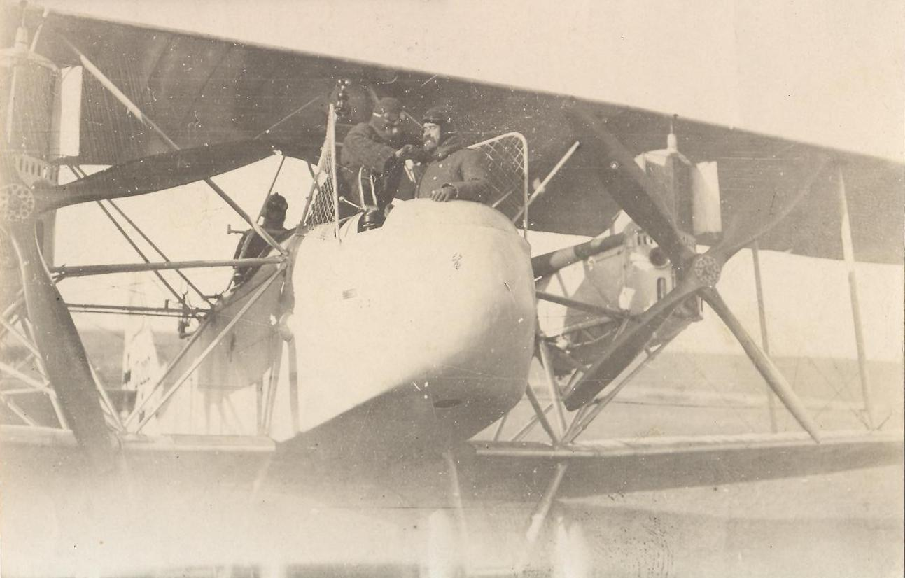 Bulgarian medical doctor Paraskev Stoyanov, World War I, 1916. AEG G.III(?) aircraft